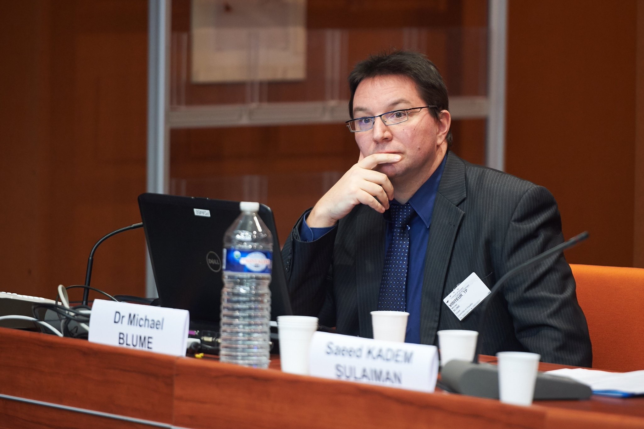 Photography taken in a session at the Council of Europe, Strasbourg, January 2017